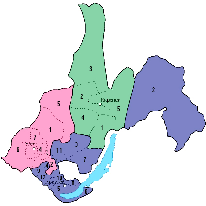 Map of Irkutsk, Kirensk & Tulun okrugs of Siberia in 1926